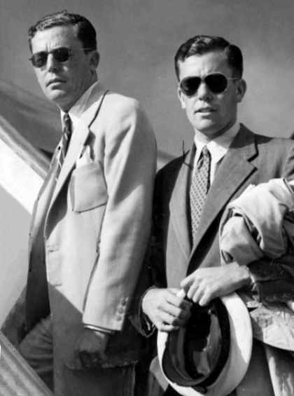 Duarte Manuel Bello and Fernando Bello leaving for the 1948 Olympics